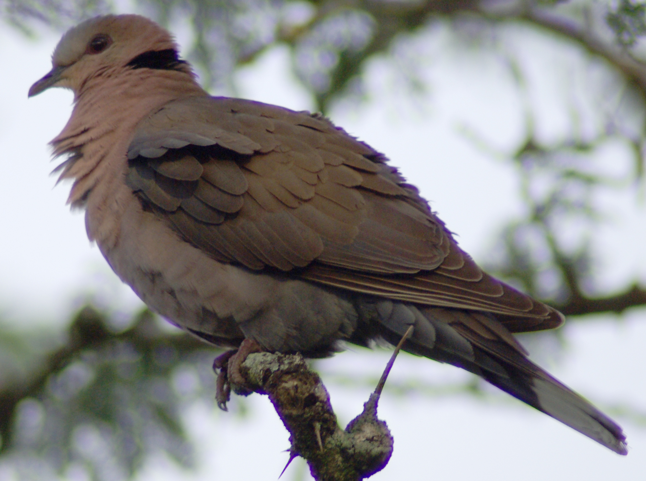 Adult Red-eyed Dove, Streptopelia semitorquata, Sweetwaters Game Reserve, Kenya. The time stamp is 10 hours too early.